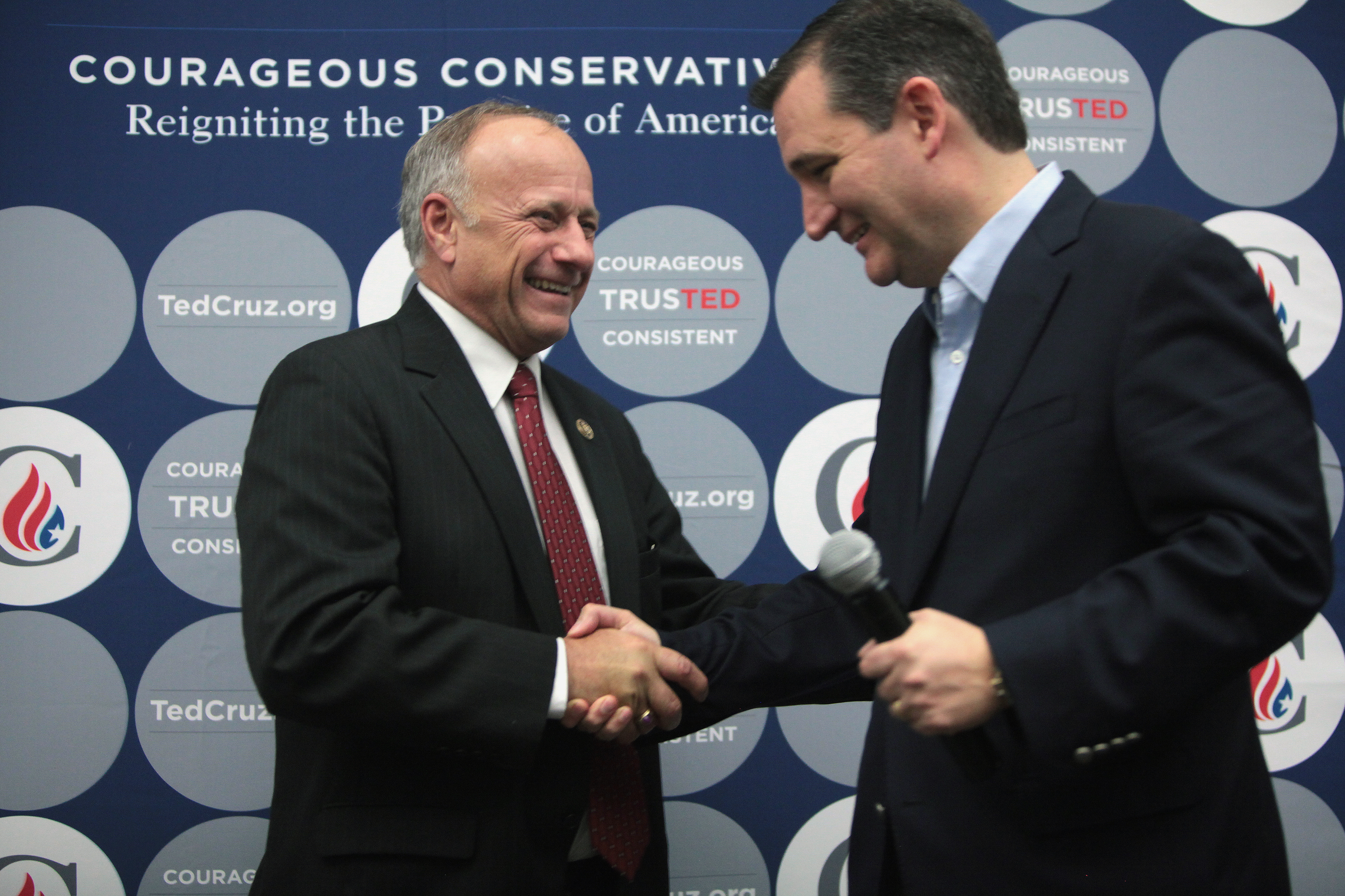 U.S. Senator Ted Cruz and U.S. Congressman Steve King speaking with supporters at a meet and greet at the Iowa Events Center in Des Moines, Iowa.